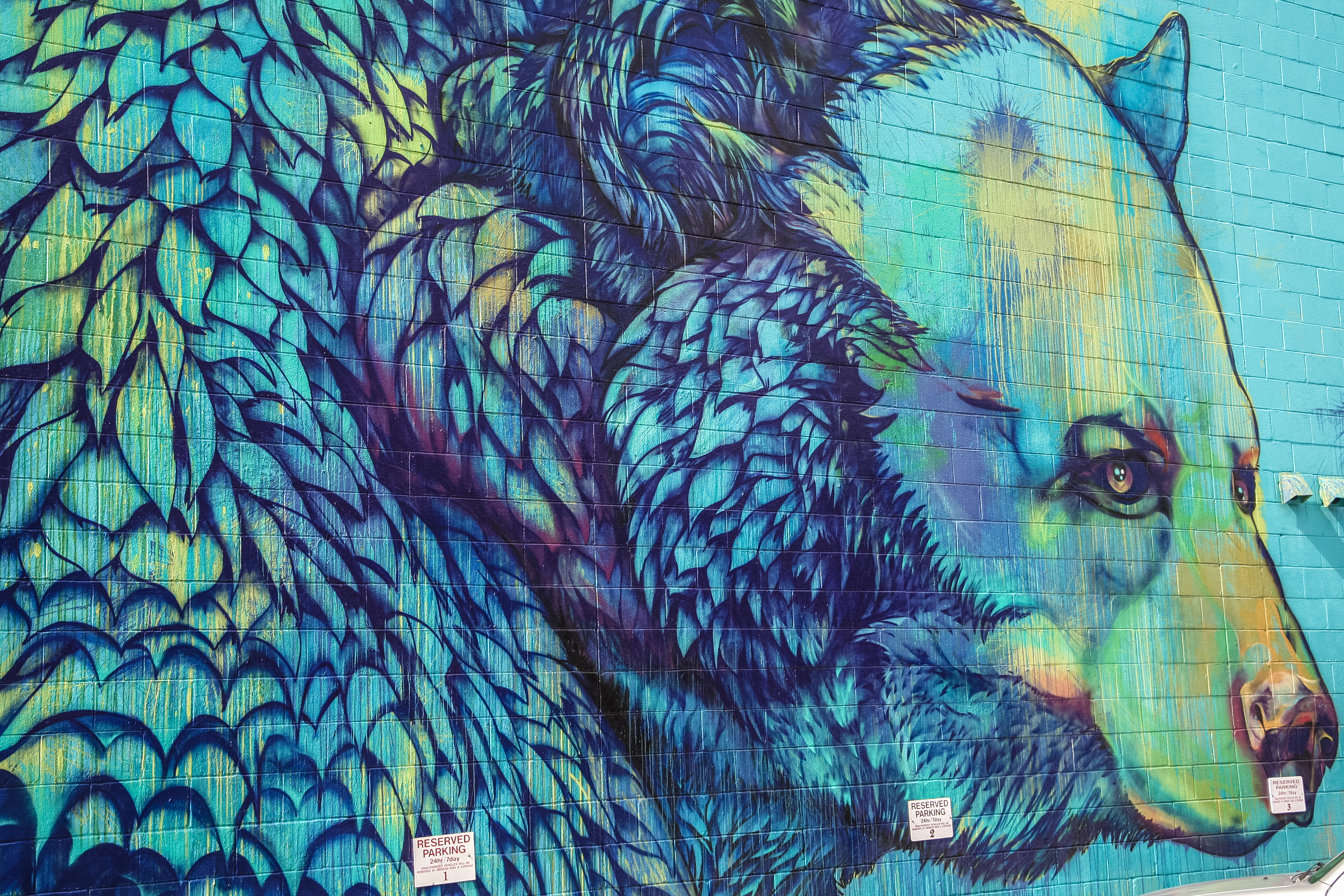 bear mural in downtown Kamloops